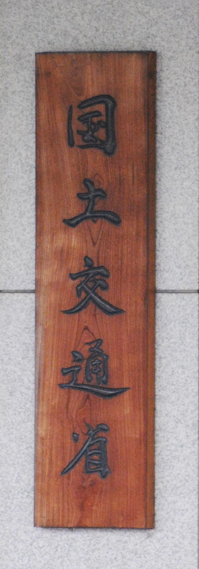 Nameboard of Ministry of Land, Infrastructure, Transport and Tourism, writed by Chikage Oogi